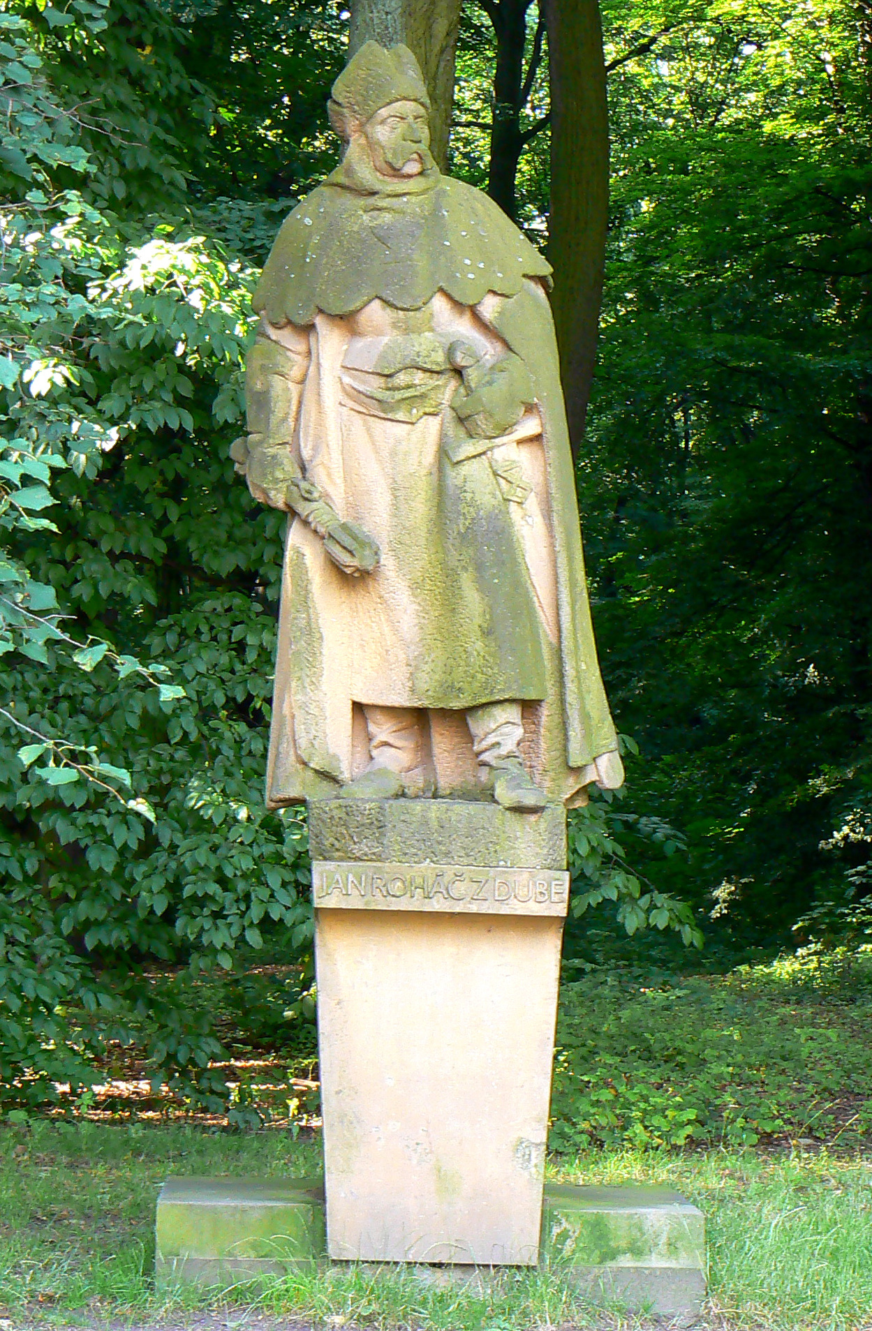 Statue of Jan Roháč in Summer Palace Hvězda Game Reserve, Prague, Czech Republic